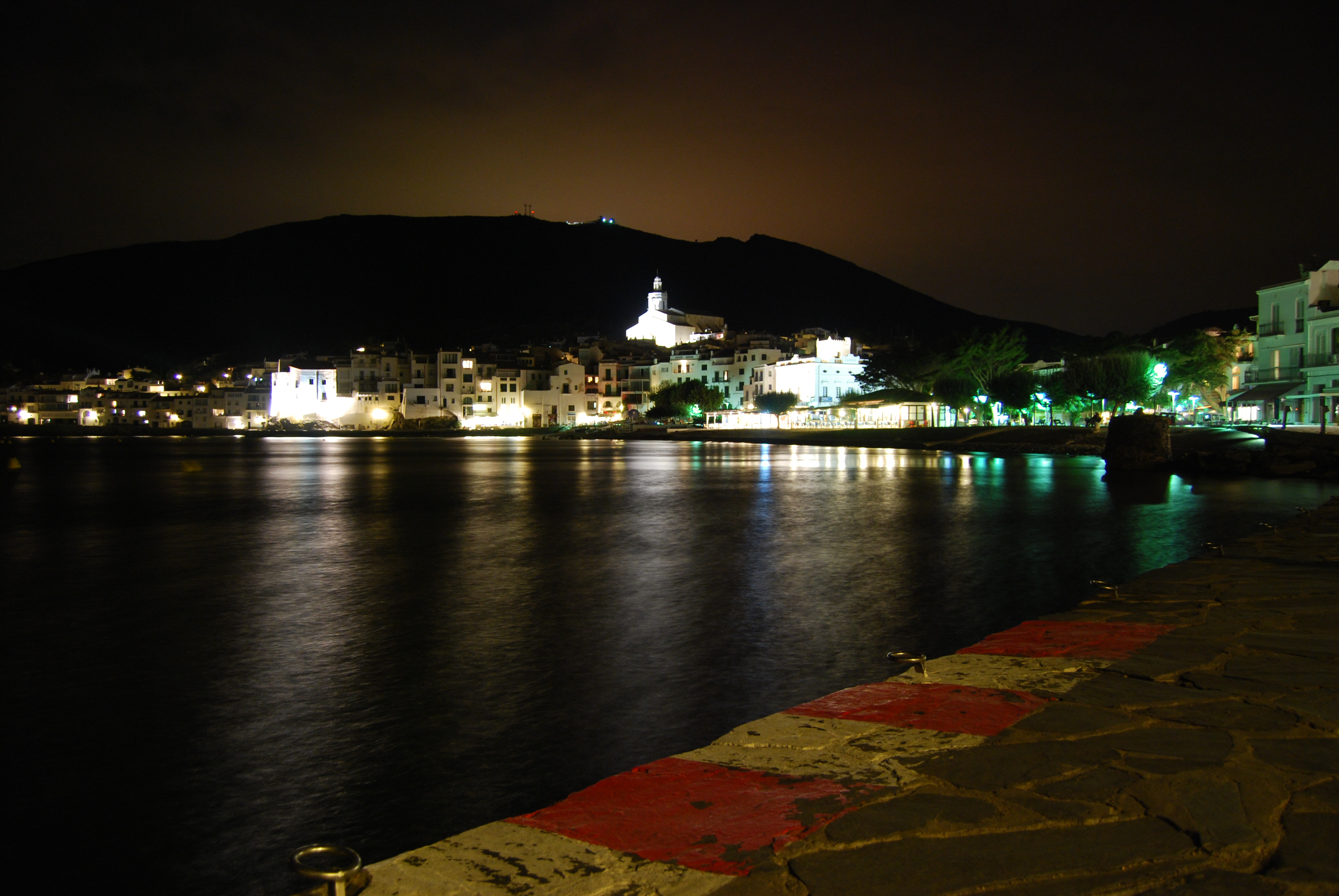 Cadaques shoreline at night.